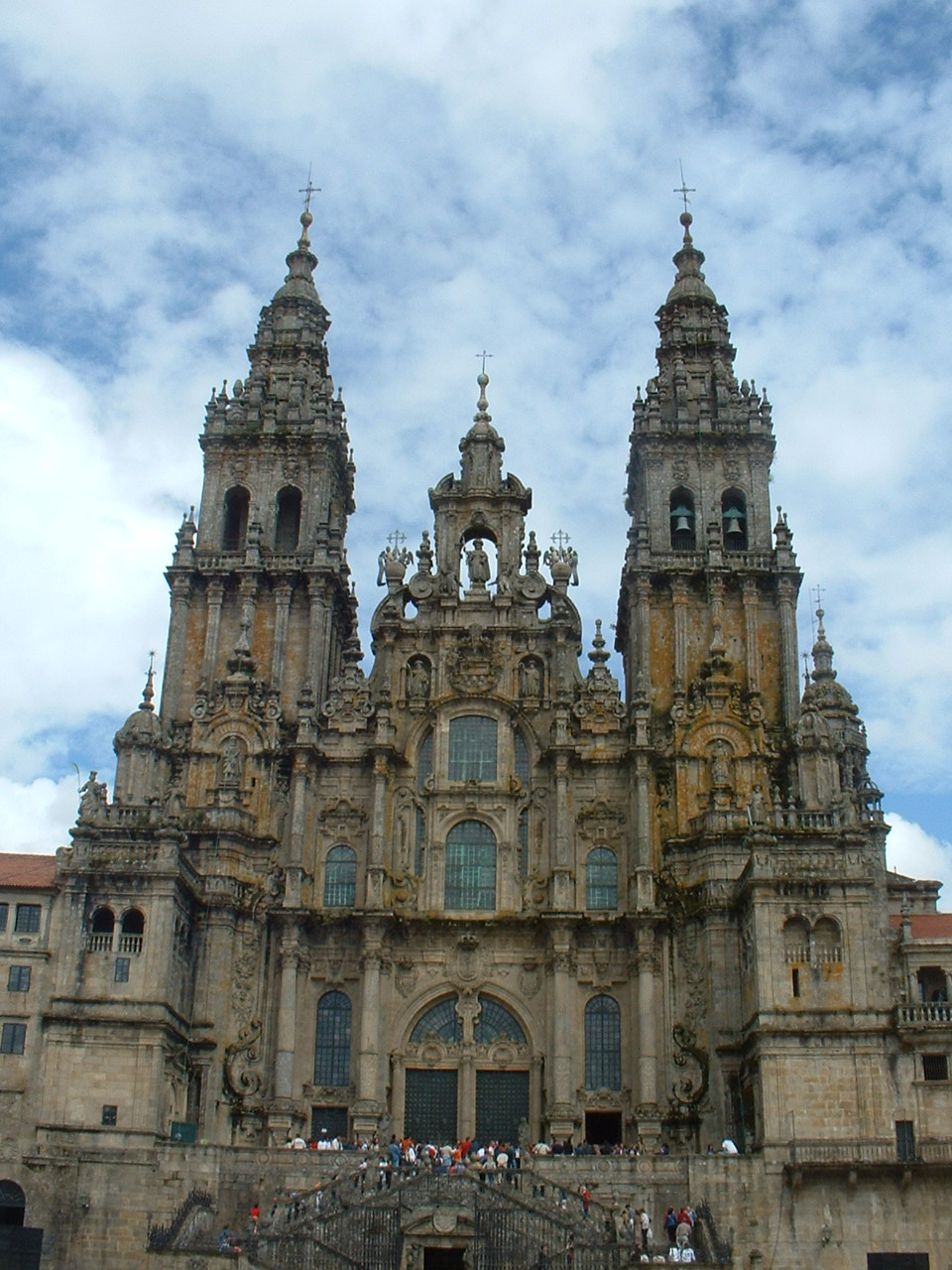 Church of Santiago, Santiago de Compostela, Galicia, Spain. By Vasco Roxo.